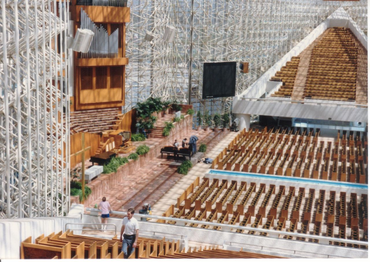 This is perhaps the most beautiful church in the west. A visit can only give you the truce size and beauty of the unique and wounderful building that Dr. Robert Schuller and his ministries have produced.